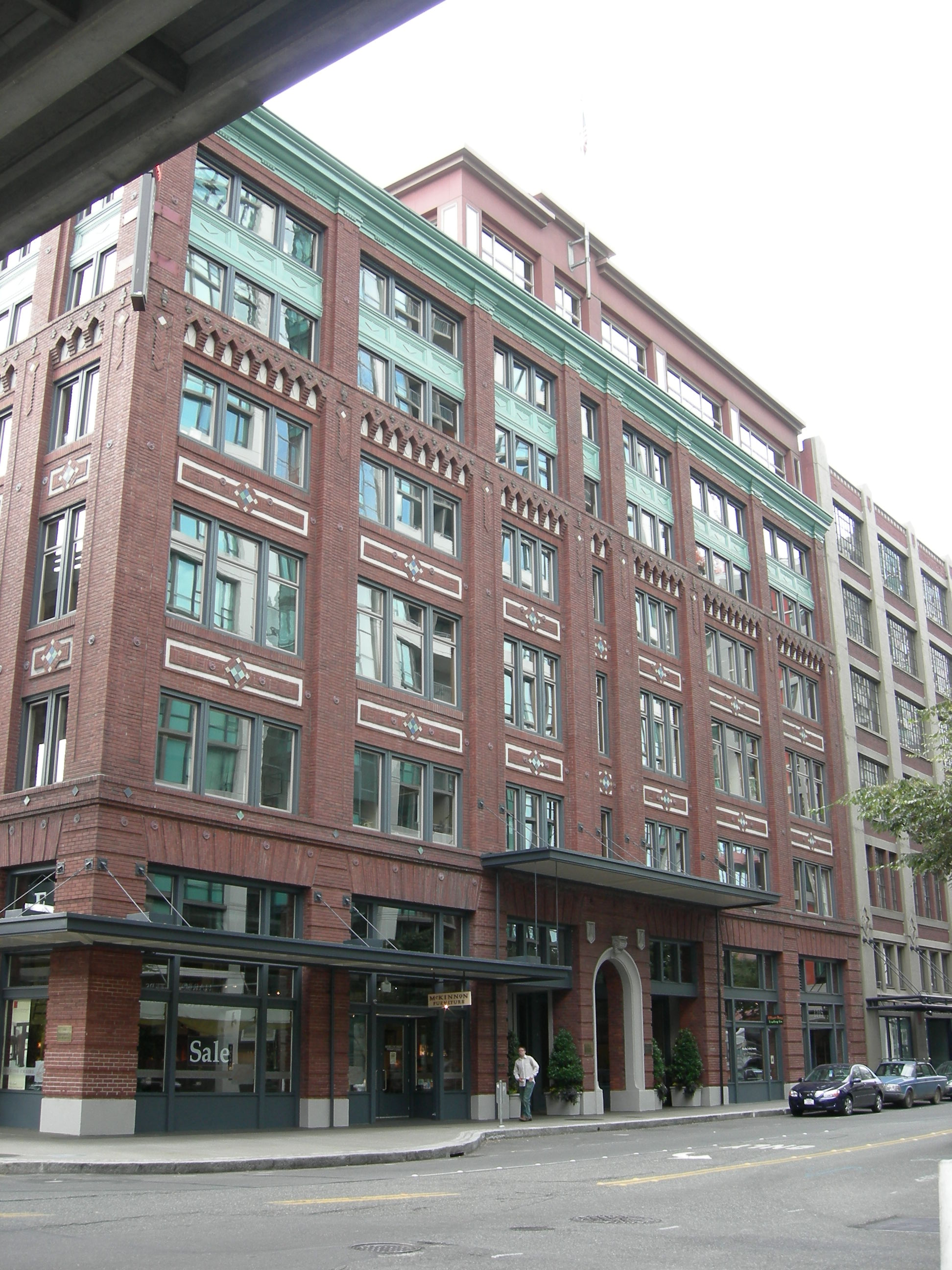 Agen Warehouse, also known as Olympic Cold Storage Warehouse, 1201 Western Avenue , Seattle, Washington, USA. Has city landmark status and is also listed on the National Register of Historic Places, ID #97001673.